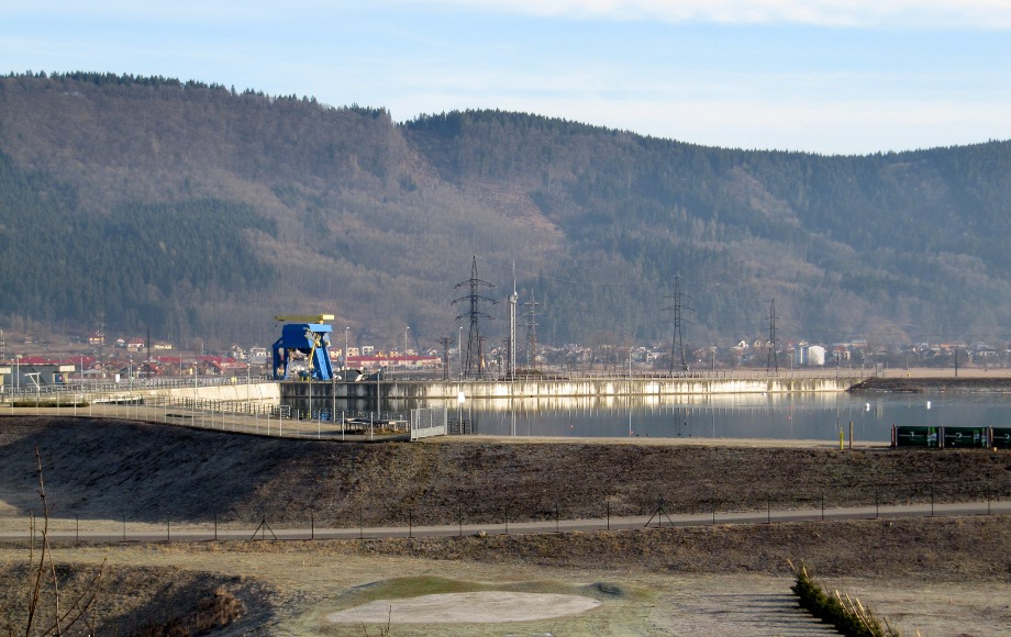 Žilina dam